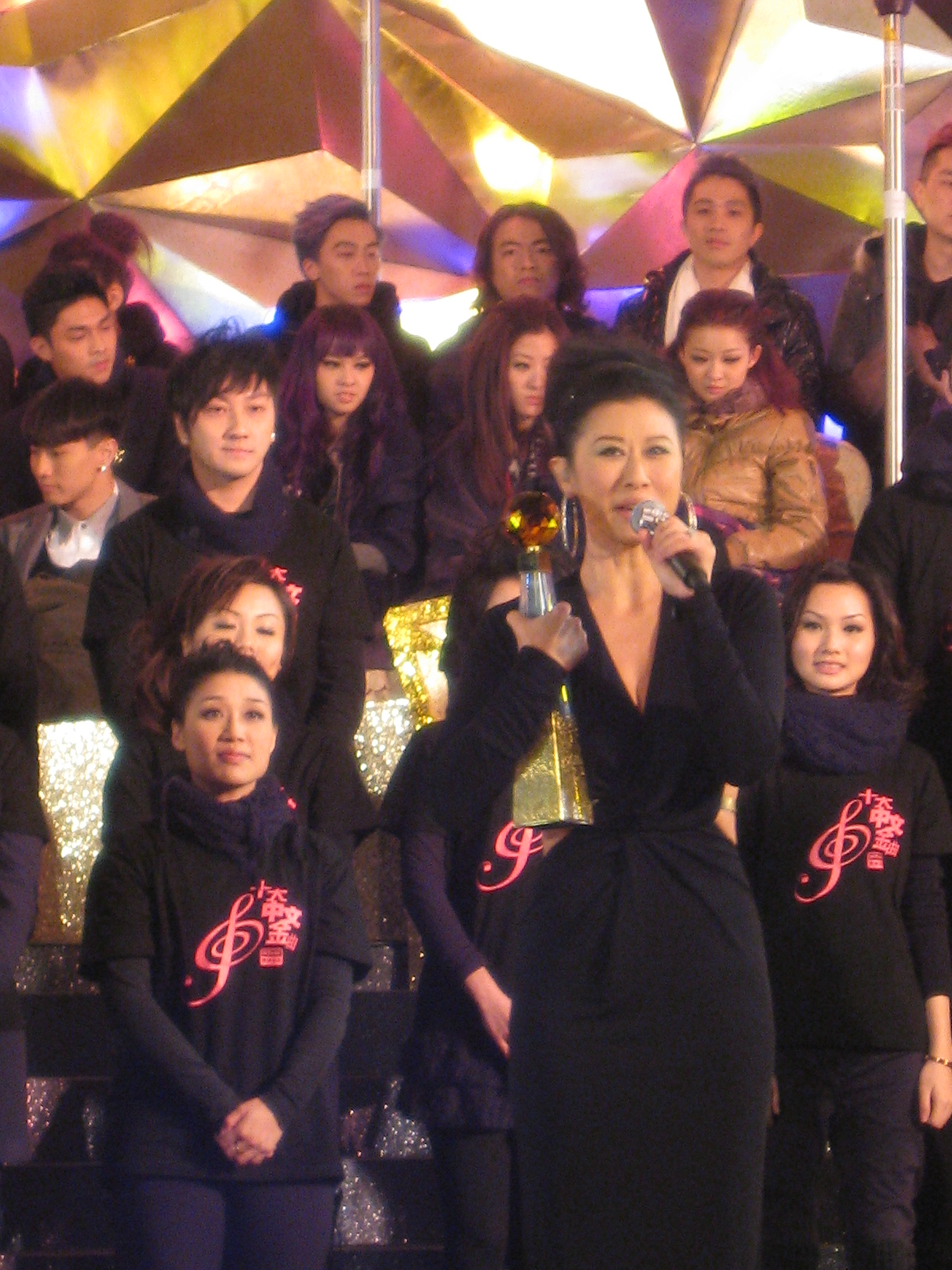 The Golden Needle Award at the 33rd RTHK Top Ten Chinese Gold Song Music Award Ceremony on 7 January 2011